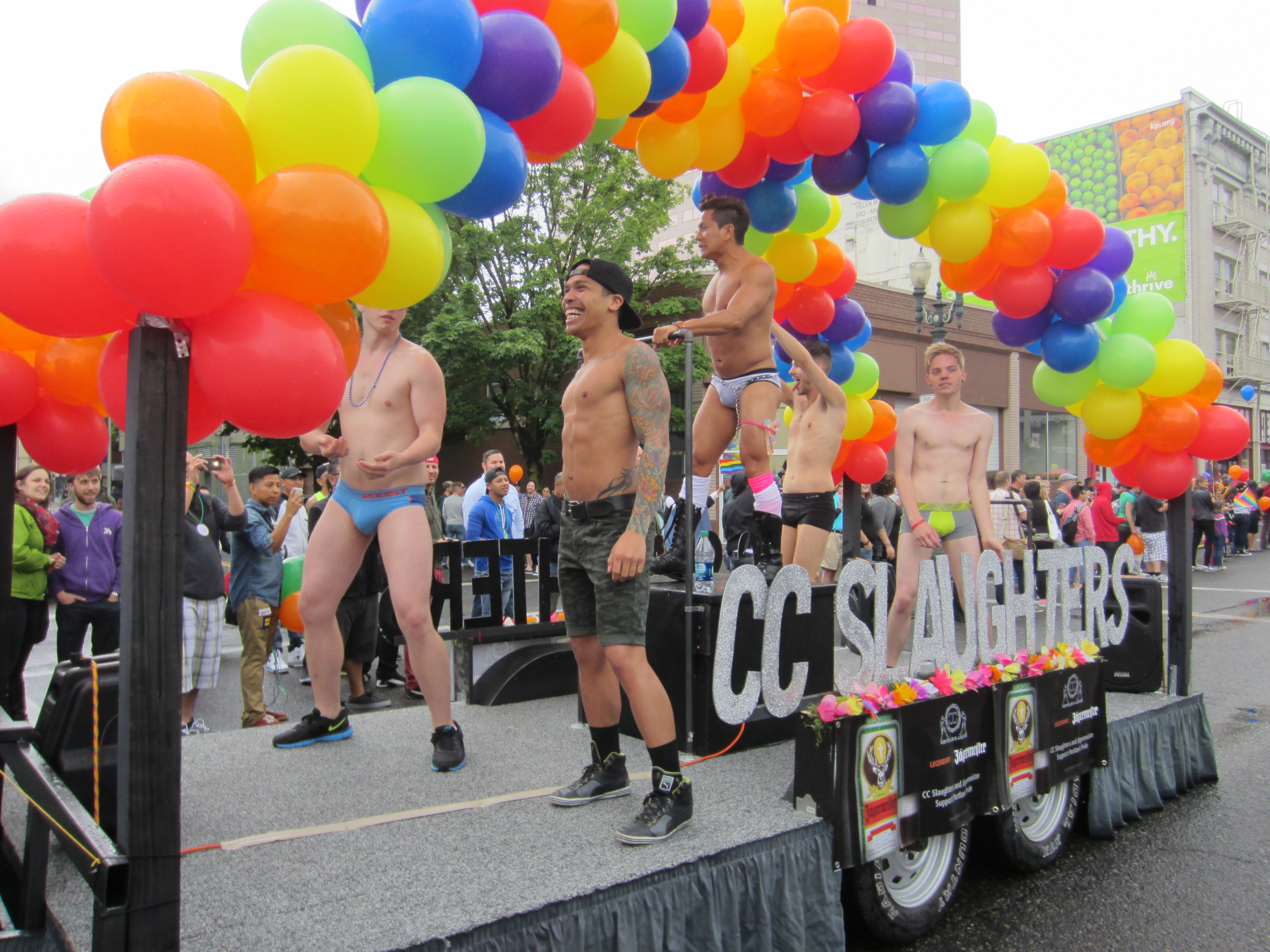 Portland Pride Parade, Oregon (June 2014)